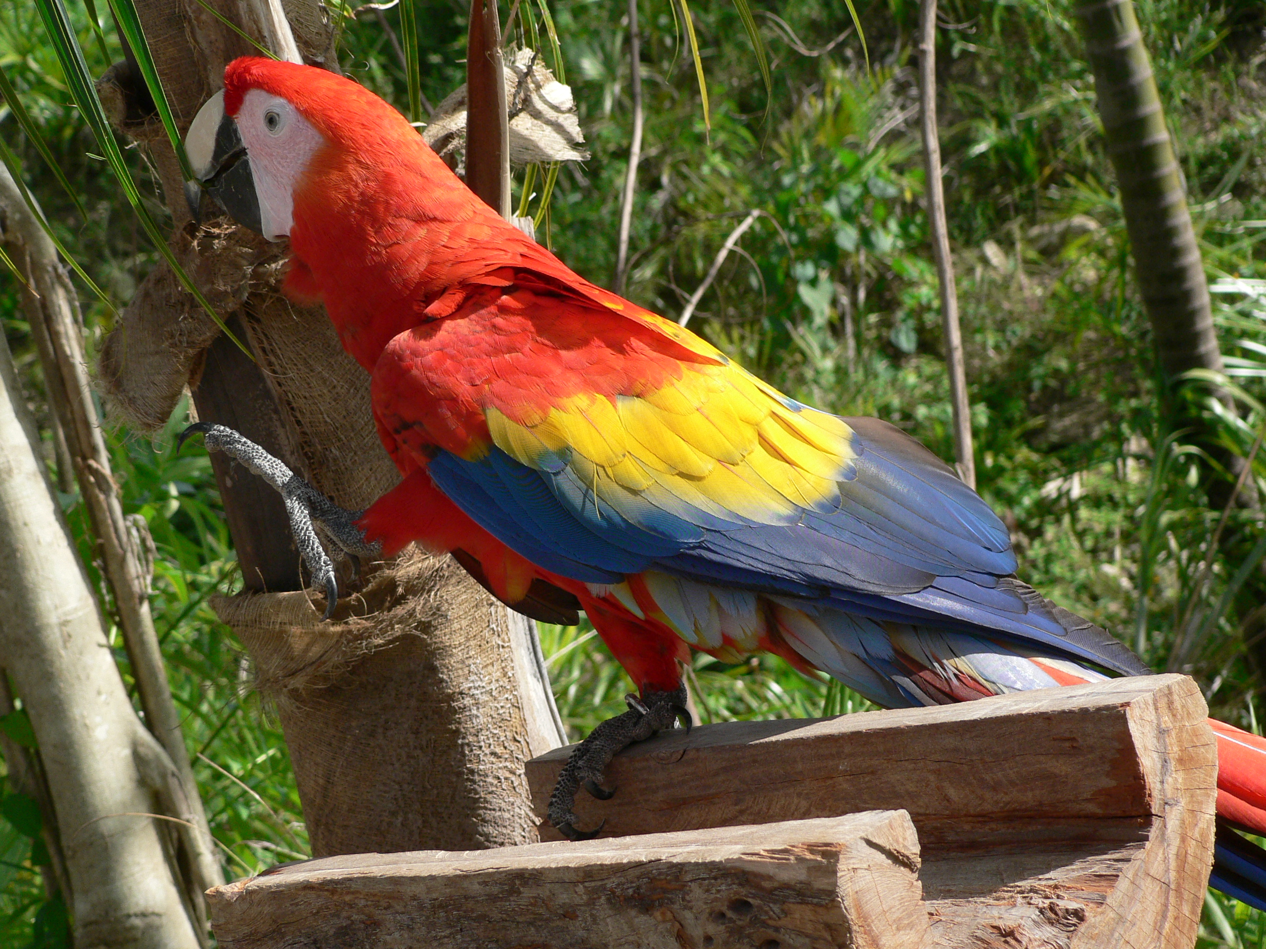 Scarlet Macaw (Ara macao). Side view. It is raising one of its legs.